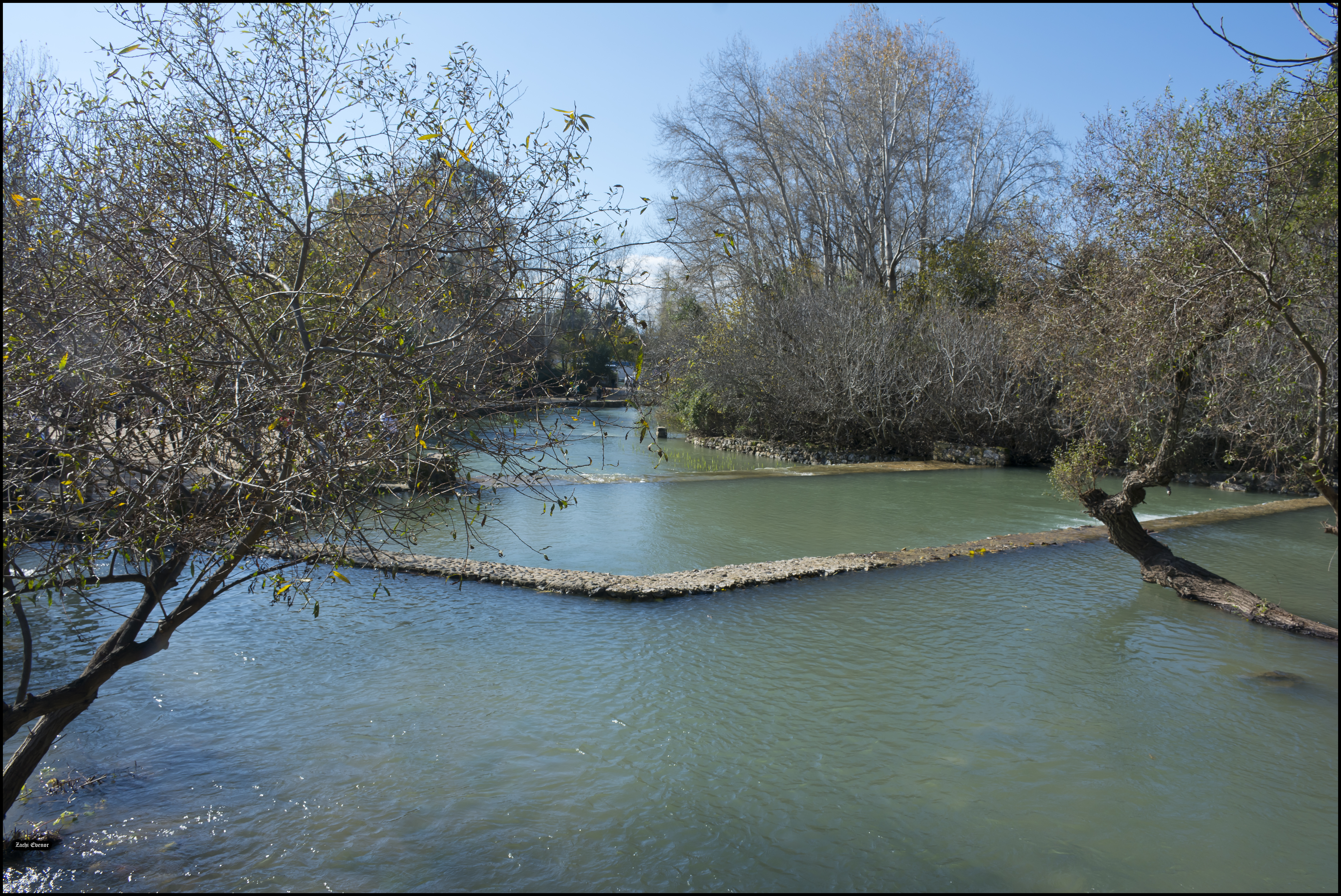 Banias Nature Reserve, Israel 2020